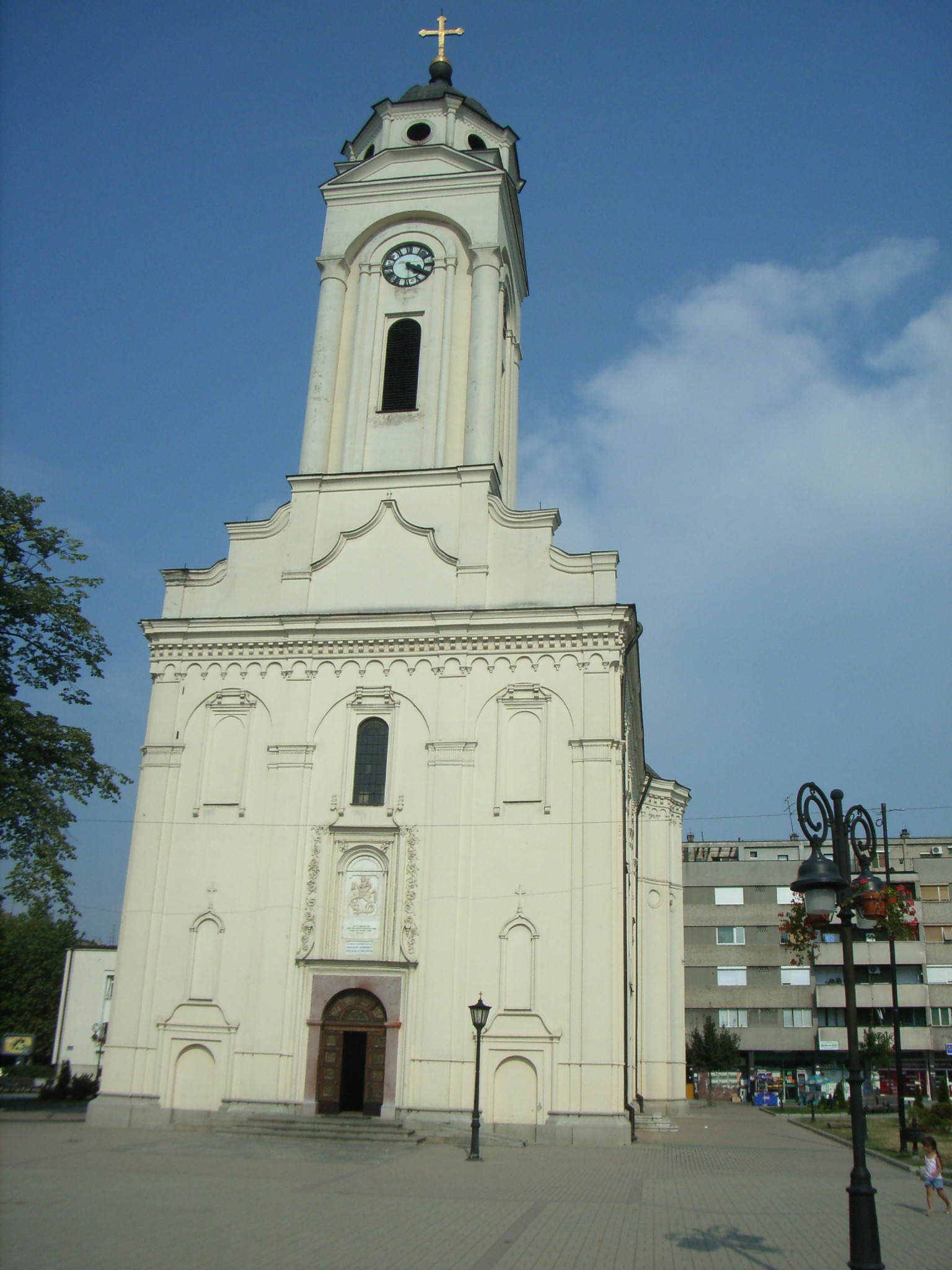 Church in Smederevo, Serbia.